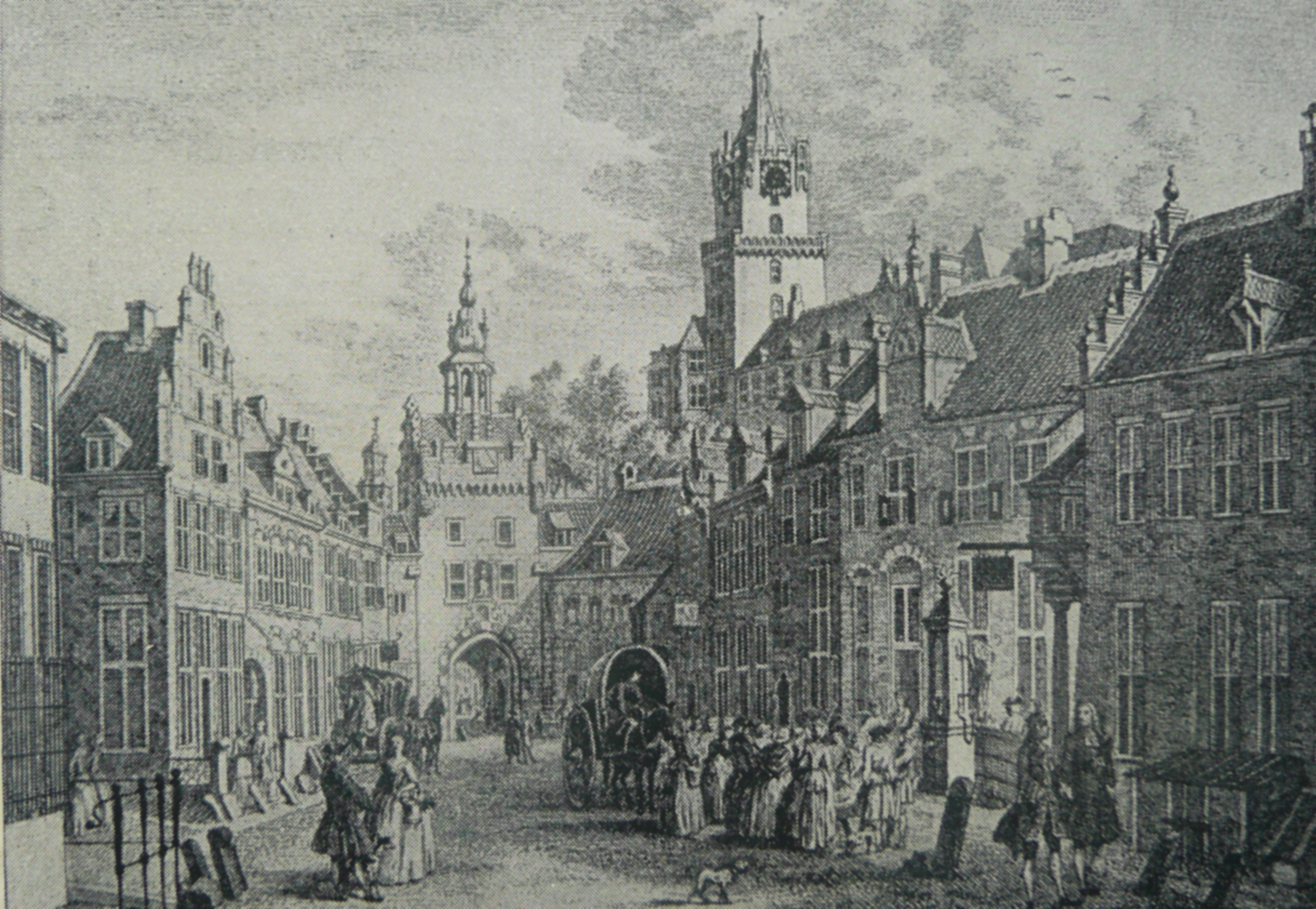 Center of Kleve (Germany) in 1745